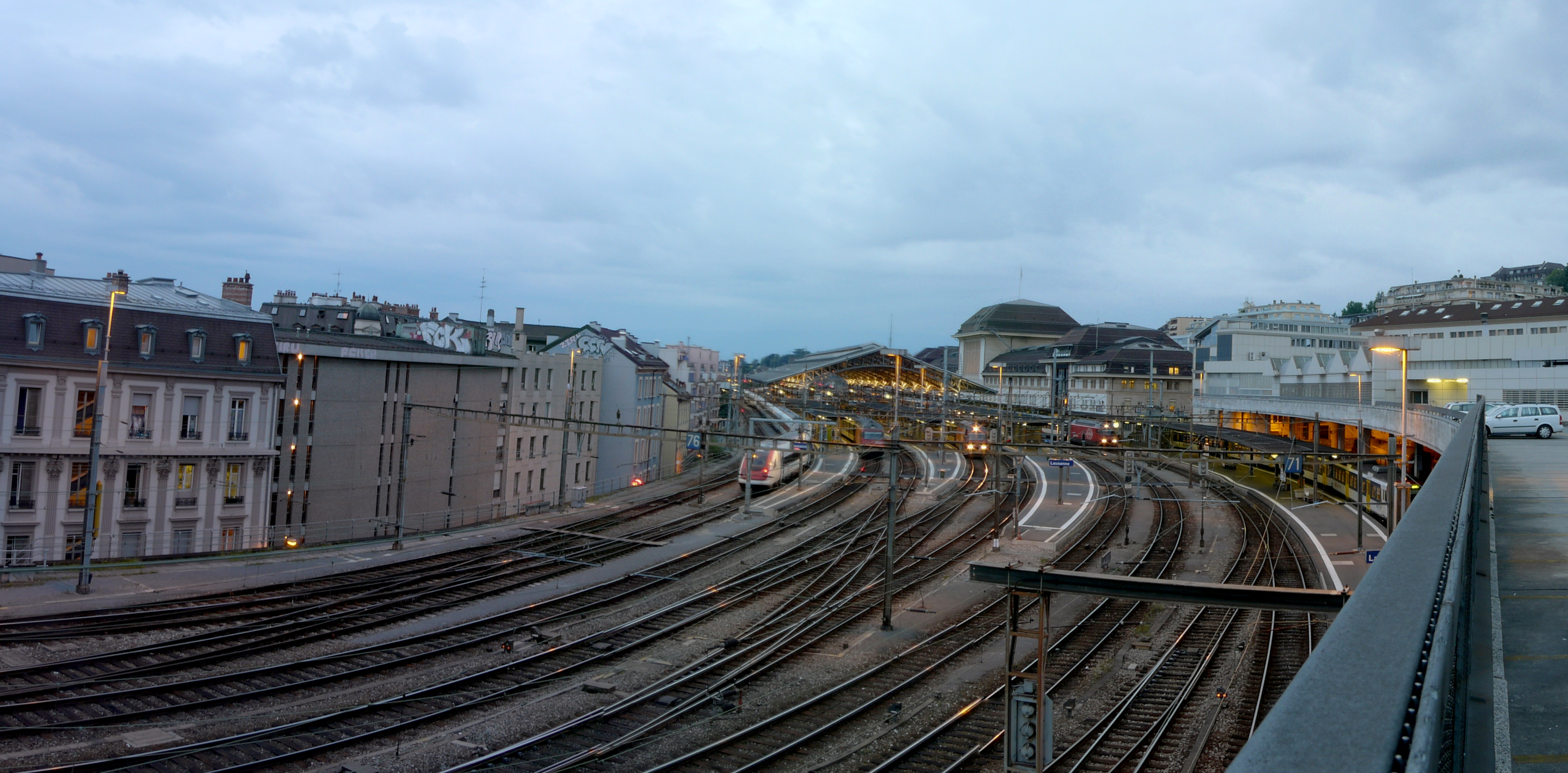 The Railroad Station of Lausanne, night falling.